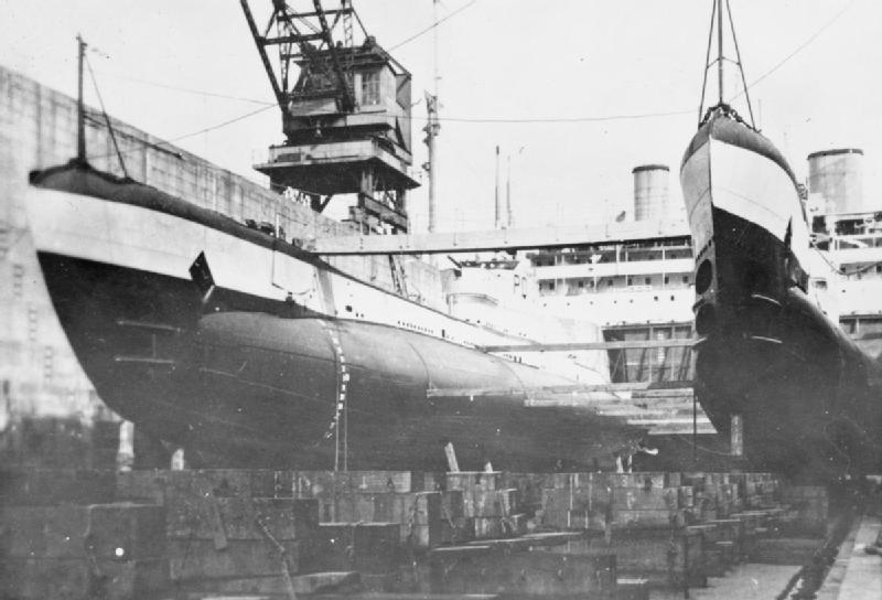 HMSM Poseidon and HMSM Proteus In the dockyard.